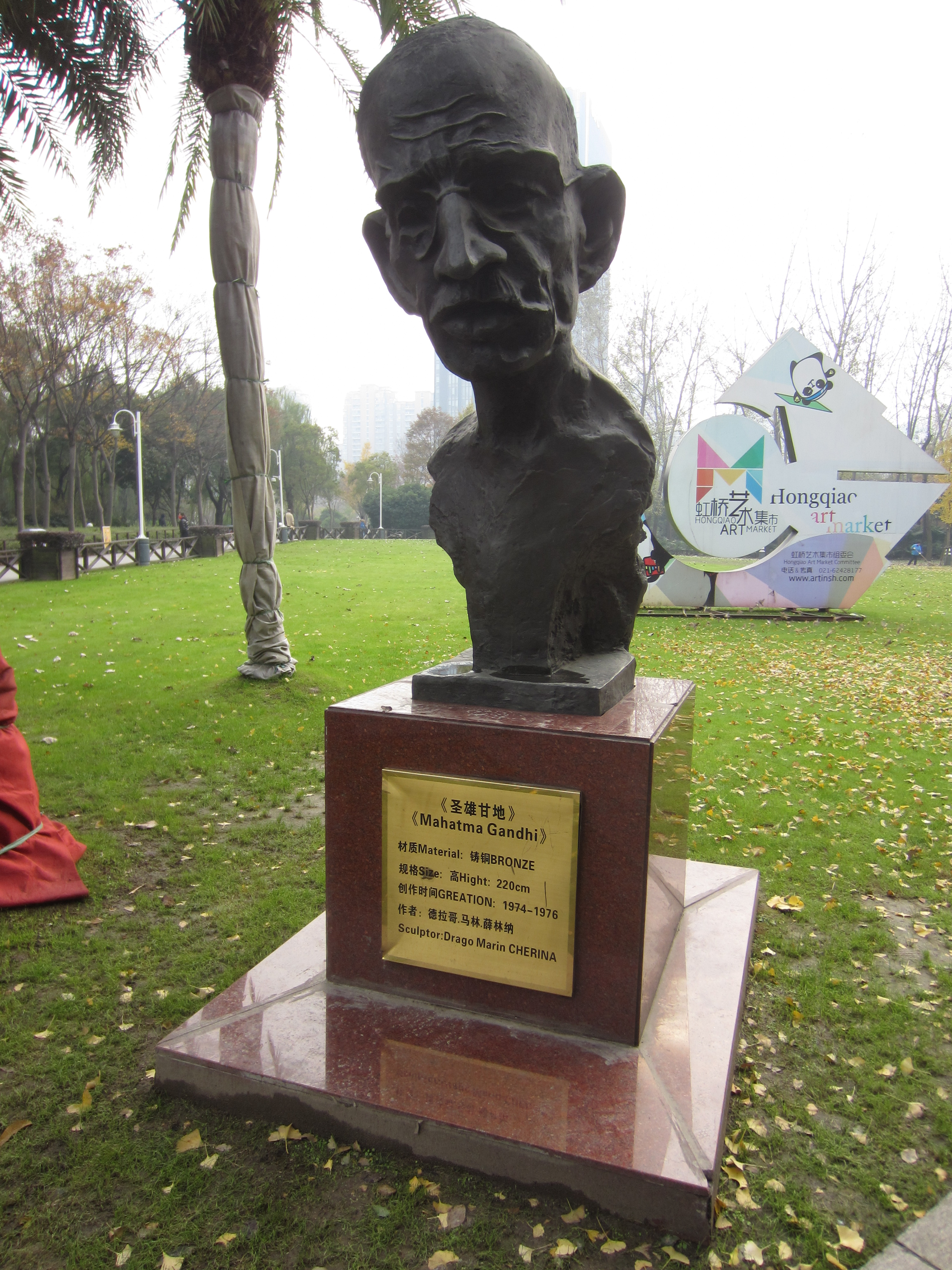 New Town Central Park, Shanghai (December 2015)